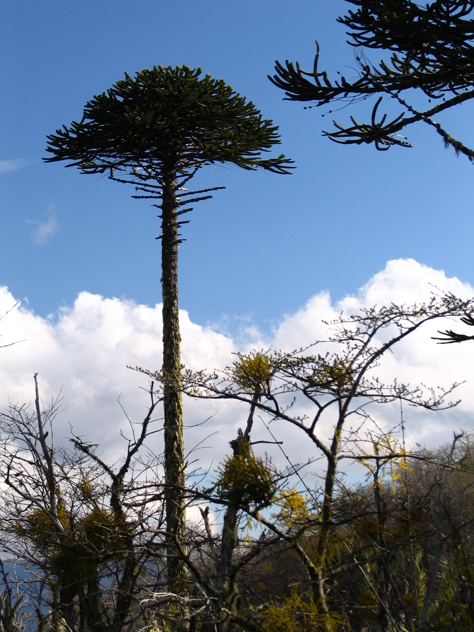 Araucaria araucana (Monkey Puzzle Tree) in the southern Andes of Chile Photographer: William S. Kessler Date: 15 Oct 2005 Location: Conguillio National Park, Chile Altitude: about 1500m